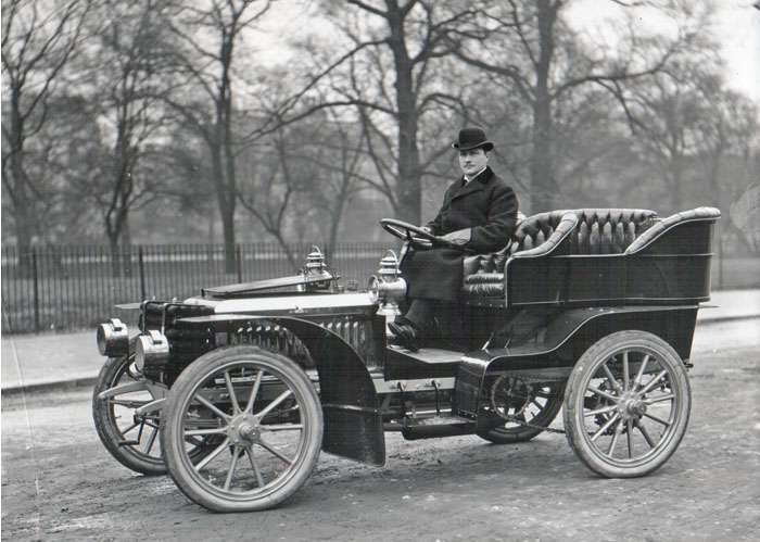 1903, 16 h.p. De Dietrich motor car with Hon. Rupert Edward Cecil Guinness, later 2nd Earl of Iveagh (1874-1967)